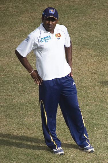 Cropped image of Mahela Jayawardena